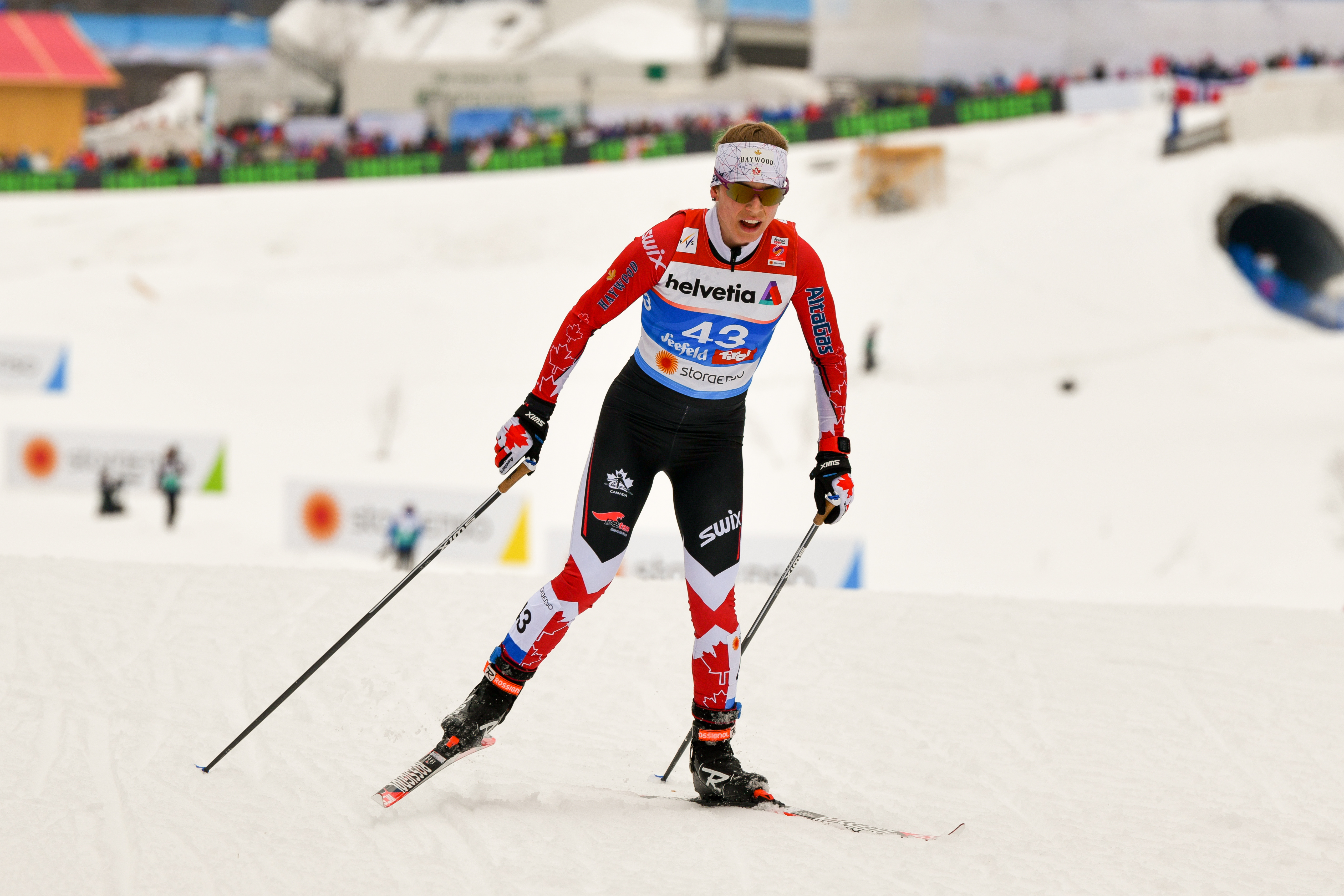 FIS Nordic World Ski Championships Seefeld 2019 - Ladies 30km Mass Start Free. Picture shows Cendrine Browne (CAN).